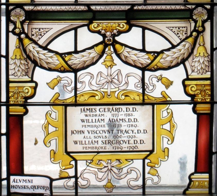 Photograph of stained glass in the Grundy Library at Abingdon School containing the names of James Gerard, William Adams, John Tracy and William Sergrove.